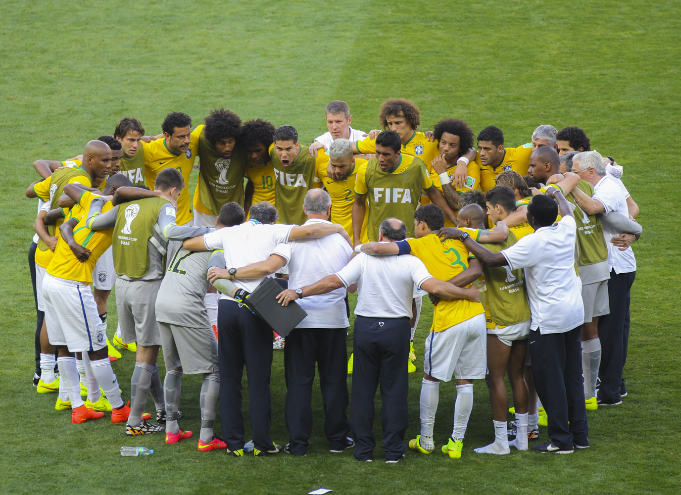 Brazil vs. Chile in Mineirão